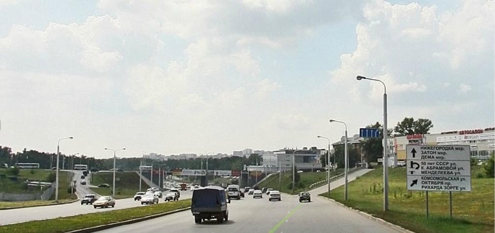 Salavat Yulaev Prospect